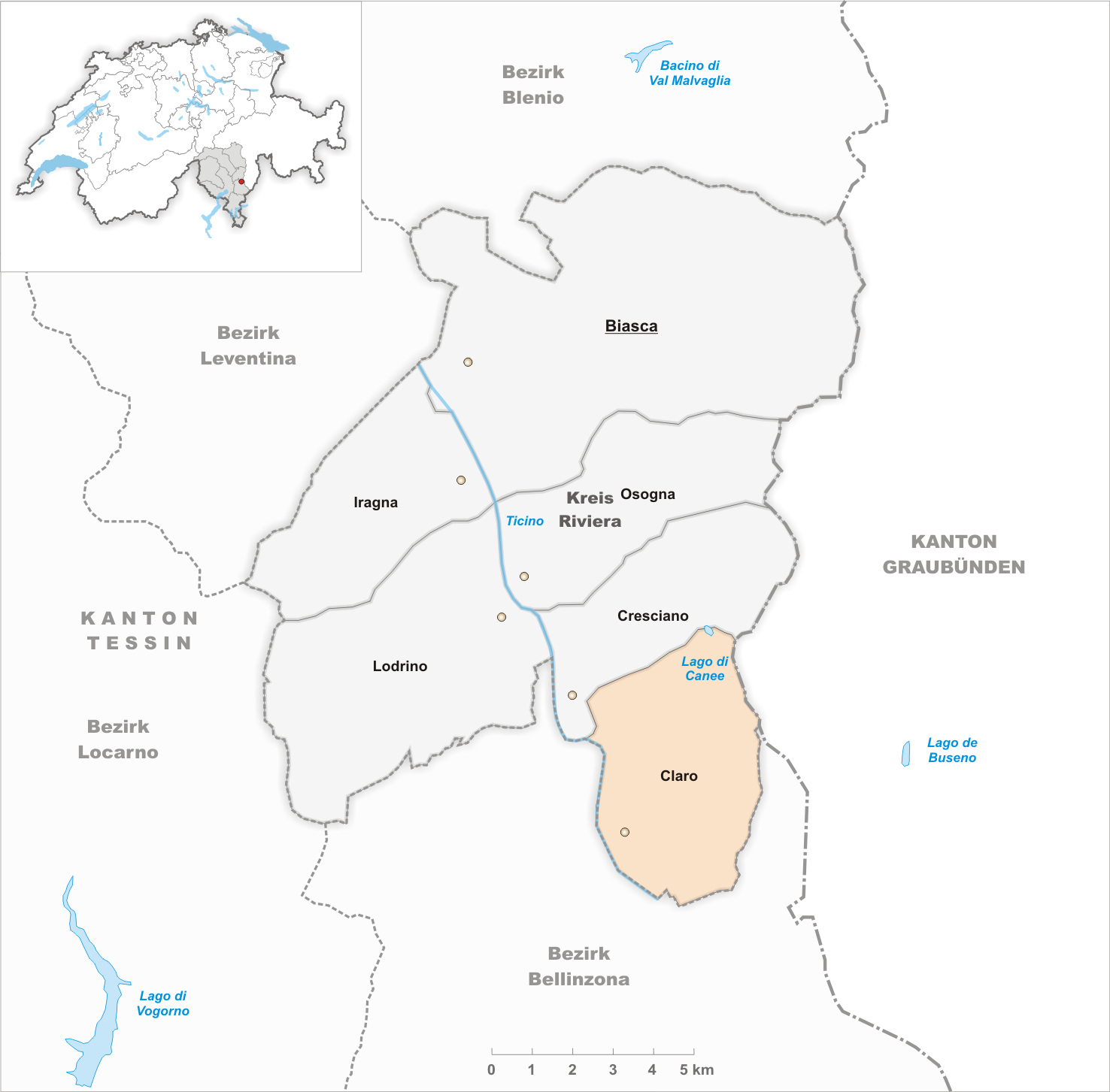 Municipality Claro